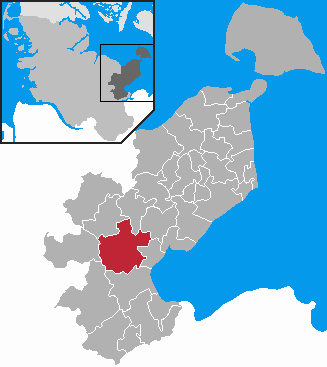 This map shows the area of the Gemeinde (municipality) Süsel in the Kreis (district) Ostholstein, Schleswig-Holstein, Germany.